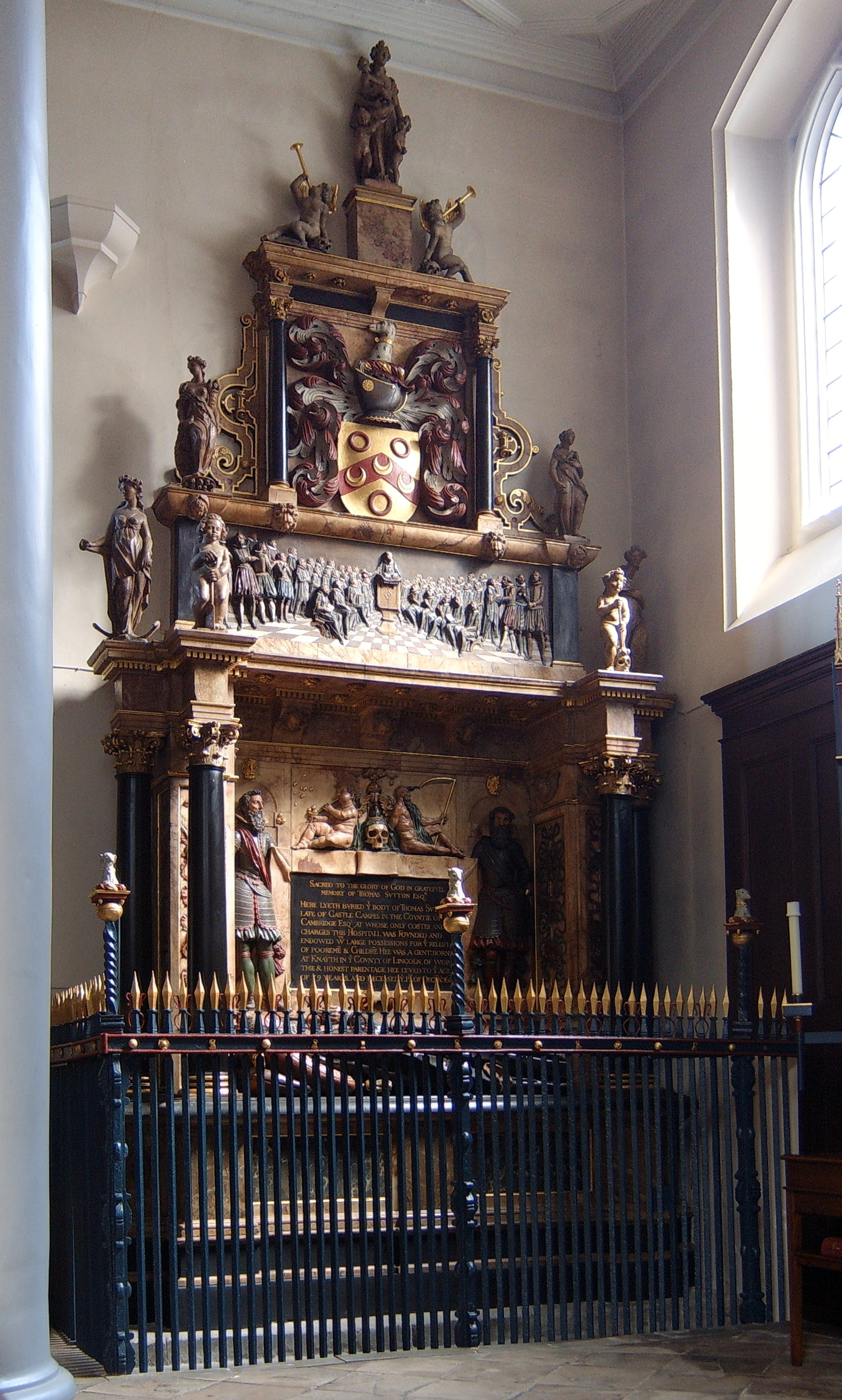 Tomb of Thomas Sutton (1532-1611), Chapel of Sutton's Hospital, Charterhouse.